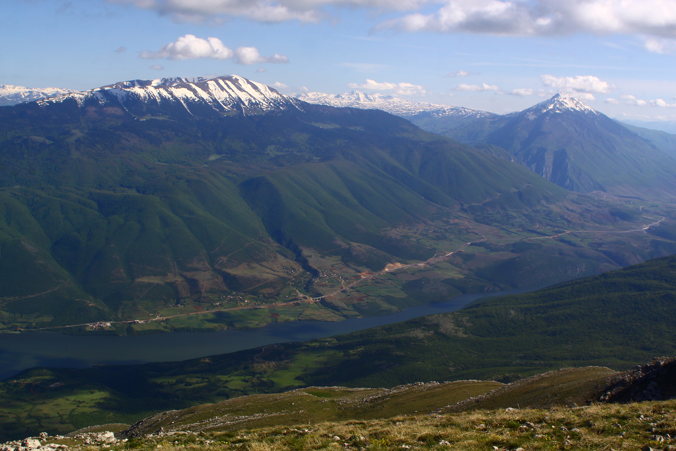 The view of Koritnik mountain (in white) from the summit of Pashtrik. The road in the bottom connects Kosovo with Albania through Morina border pass.